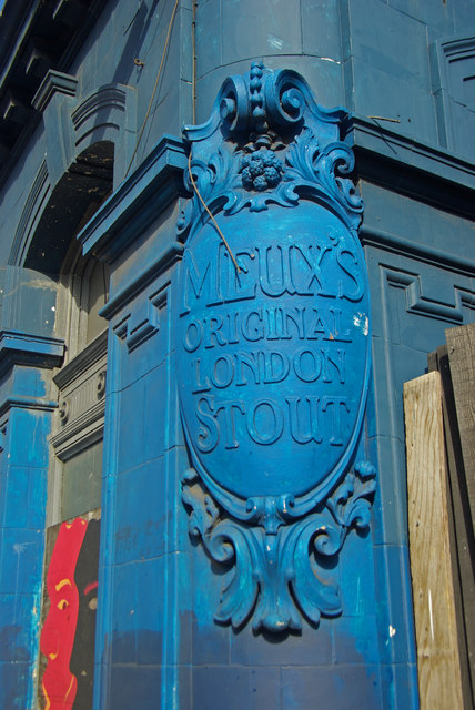 Meux's Original London Stout plaque, Sir George Robey Public House, Finsbury Park, London N4